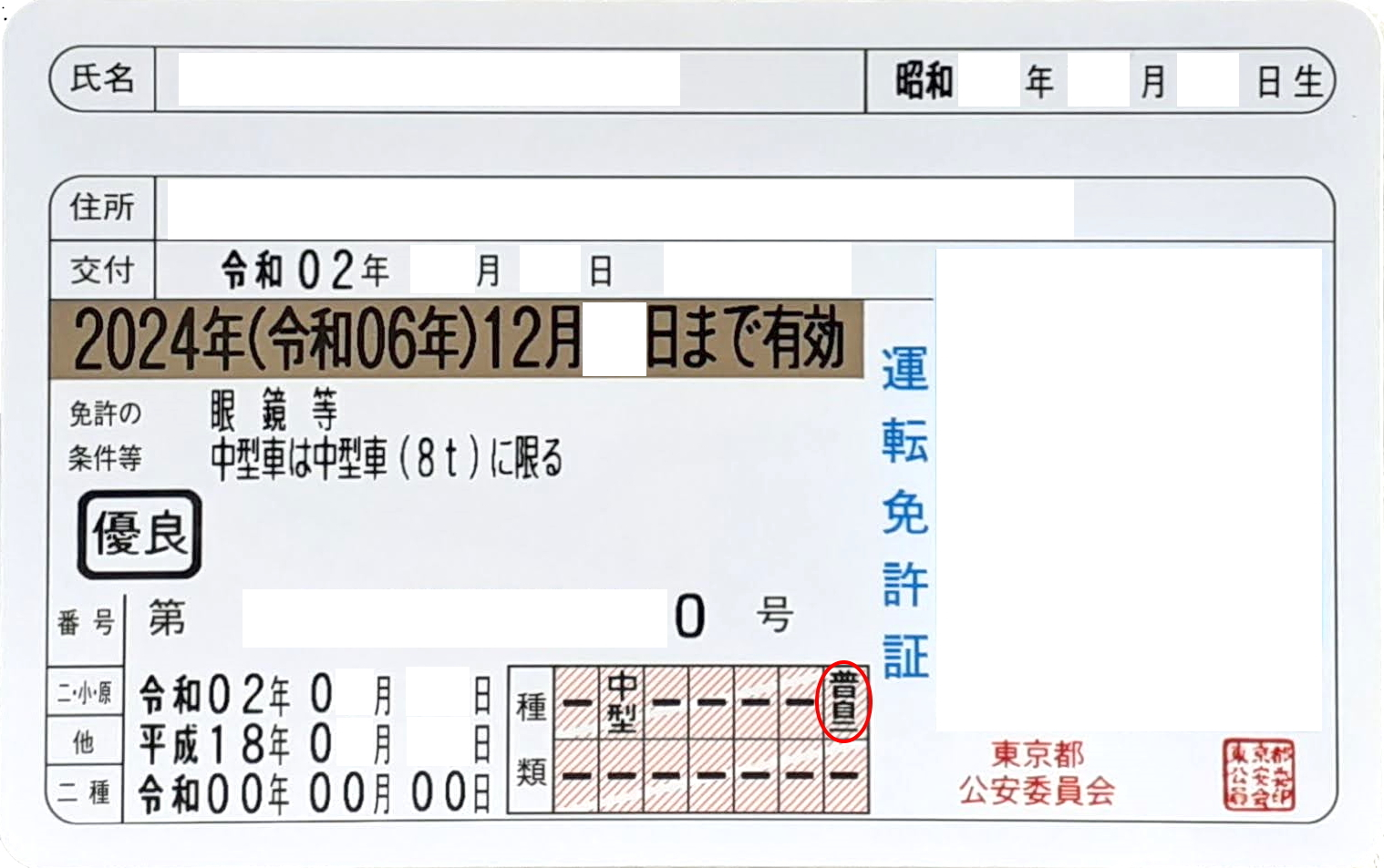 Japanese driving license with category of "ordinary motorcycle" circled. Own work based onː 1) 2)